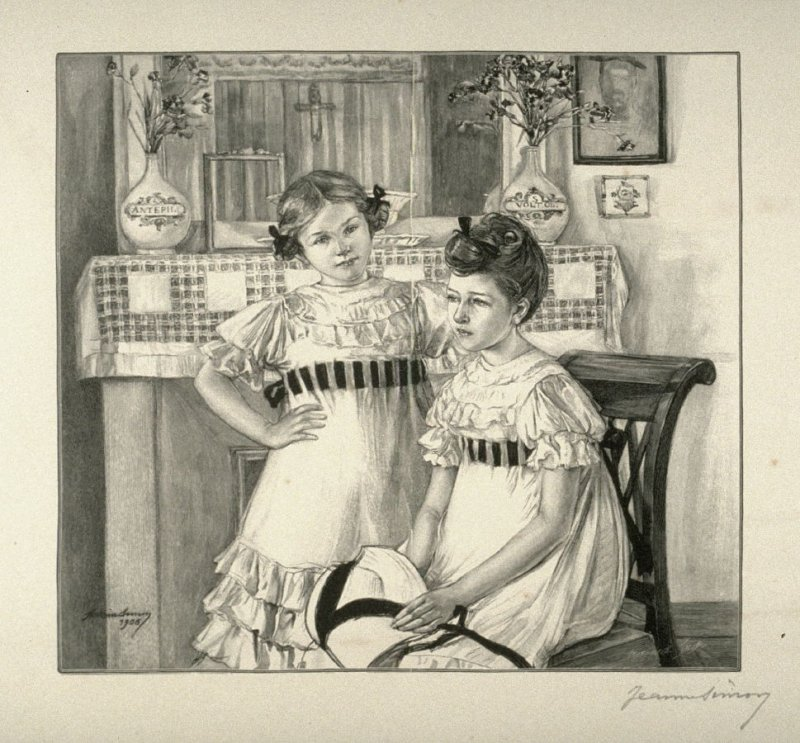 Jeanne Simon 1919 Portrait of two young girls from the portfolio Les Cartons d'estampes gravées sur bois (Portfolio of wood engravings after works of various French artists)